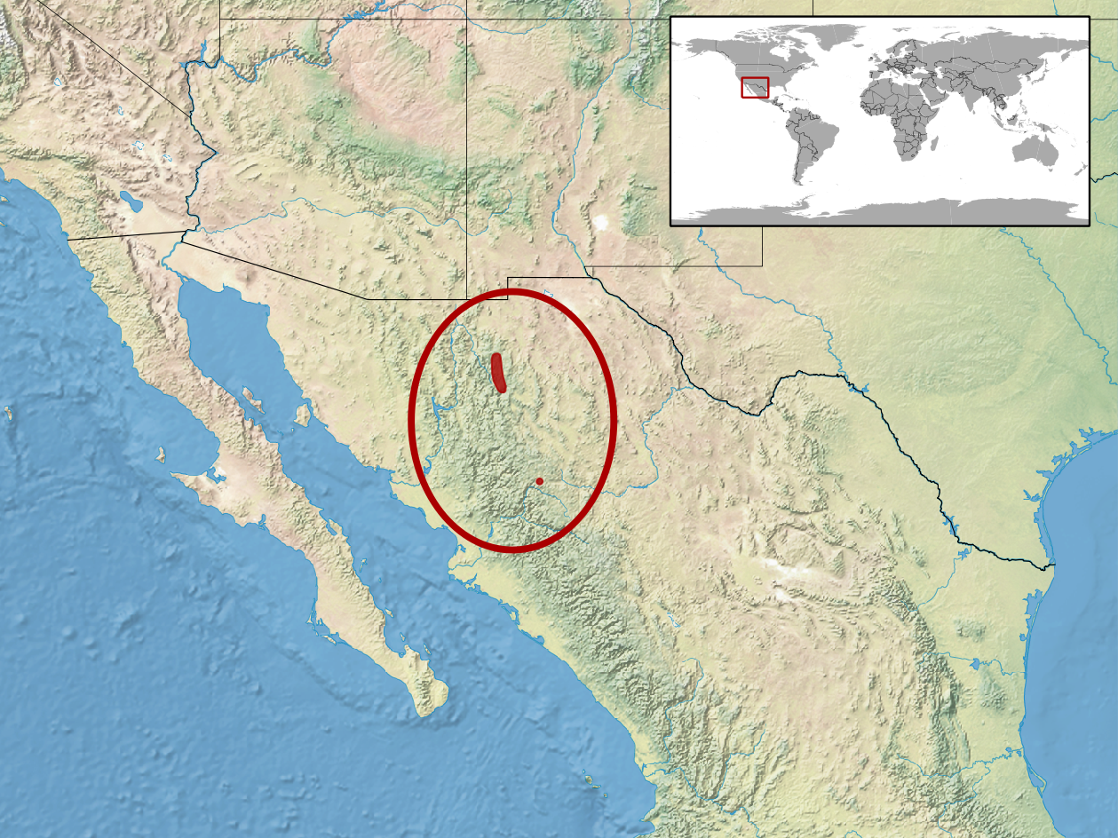 geographic distribution of Plestiodon multilineatus